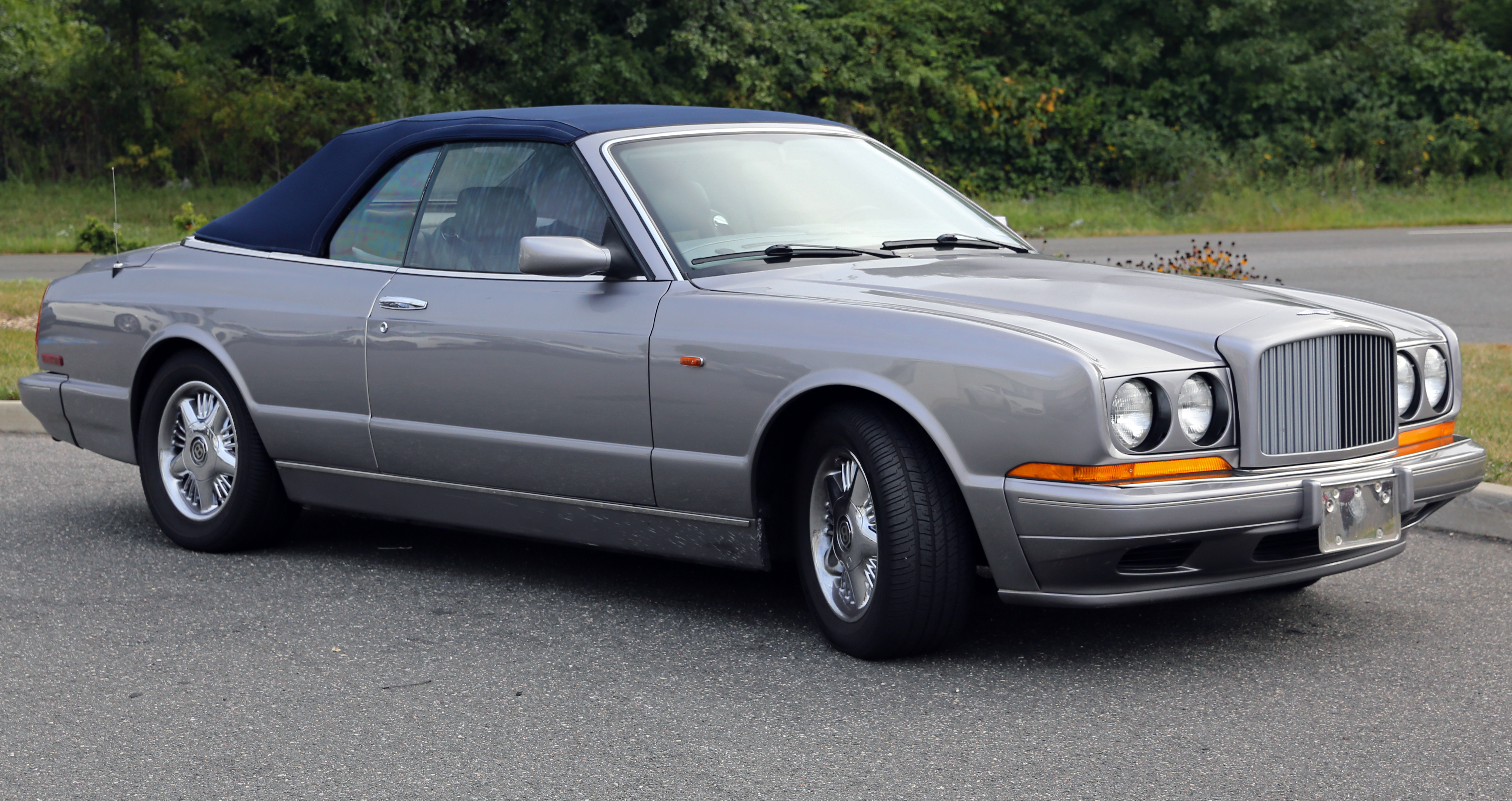 1996 Bentley Azure. This model year has OBDII, a single Garrett turbocharger, and twin airbags. Texan registration.